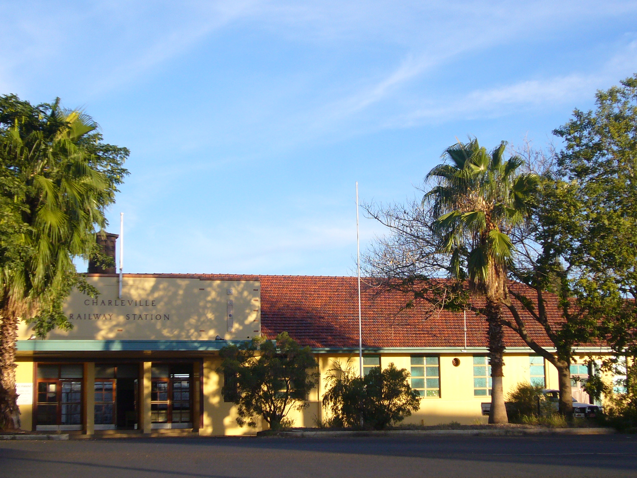 Charleville, Queensland railway station in 2007